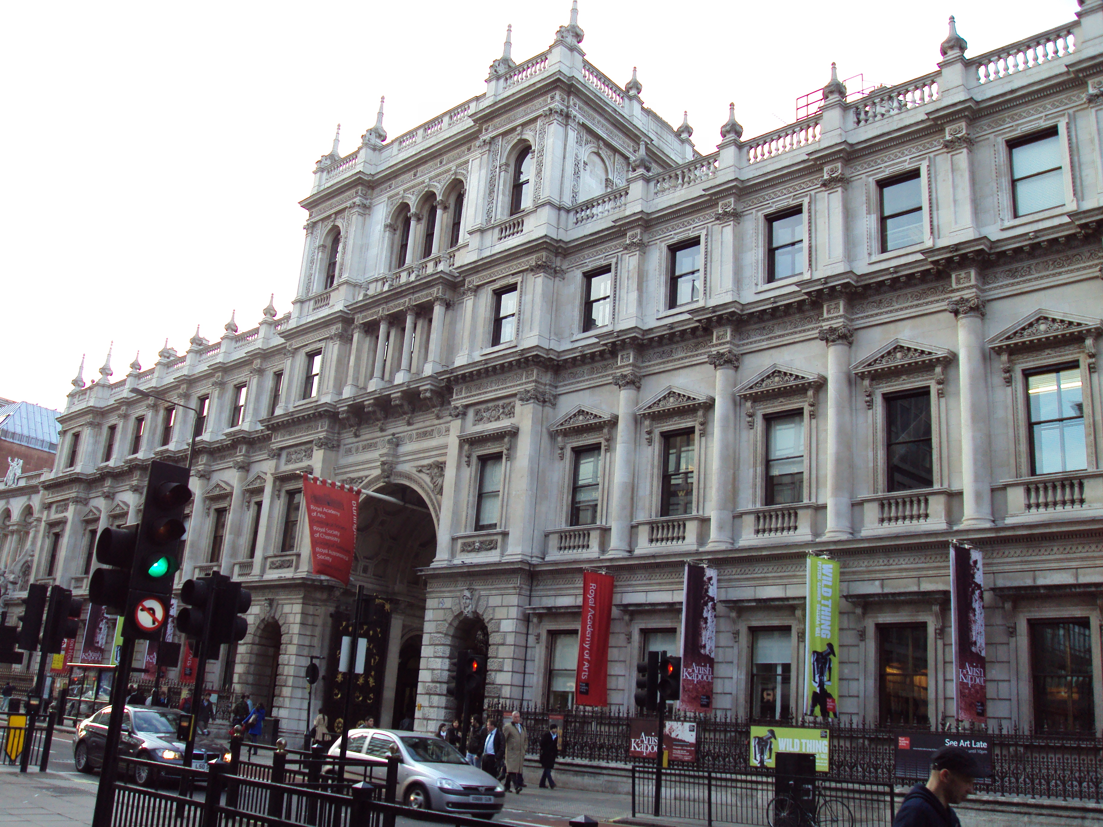 Royal Academy of Arts, Burlington House, Piccadilly, London.